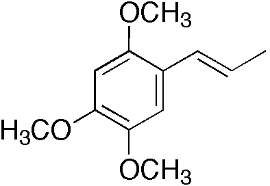 chemical structure of asarone